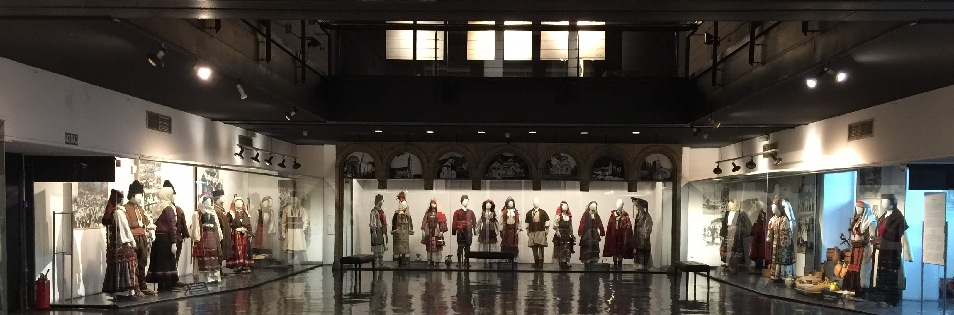 Etnographic Museum in Belgrade